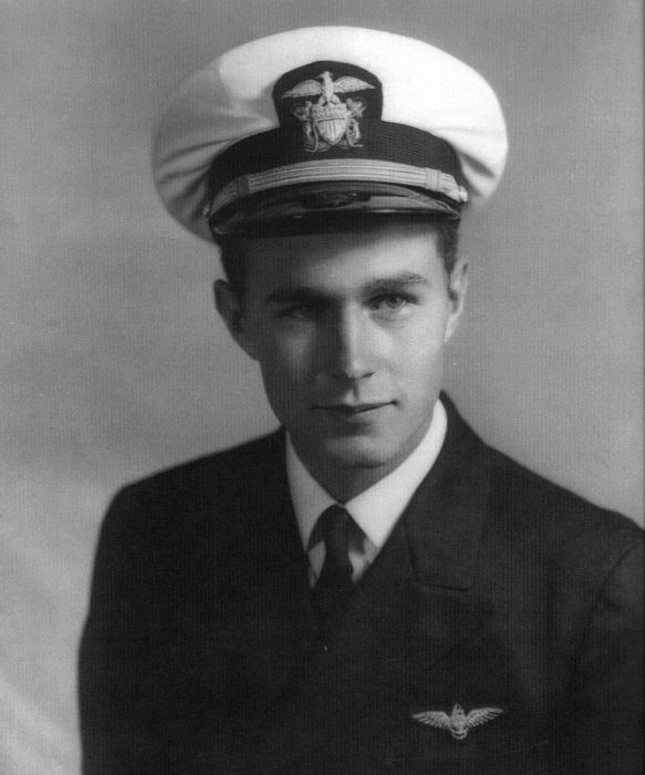 George Herbert Walker Bush, US Navy, August 1942 - September 1945